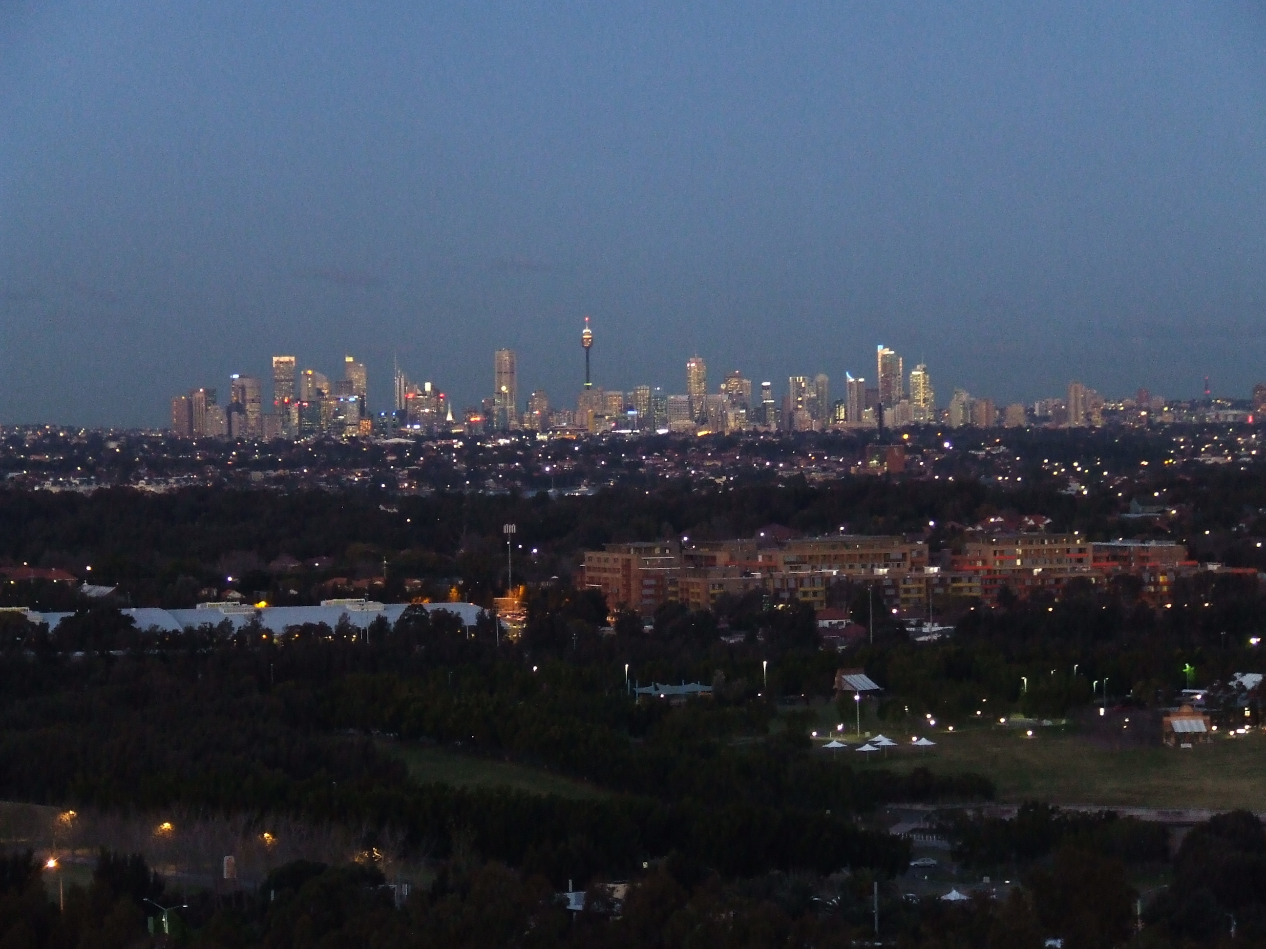 The Sydney skyline in the early evening, taken from the top floor of the Novotel at Sydney Olympic Park using a 35mm lens